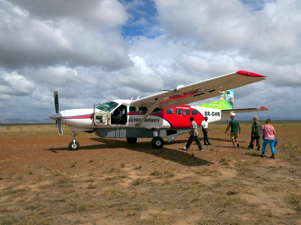 A Grand Caravan C208B aircraft belonging to Trans Guyana Airways brings visitors from Georgetown to the dirt airstrip at Karanambu Lodge.